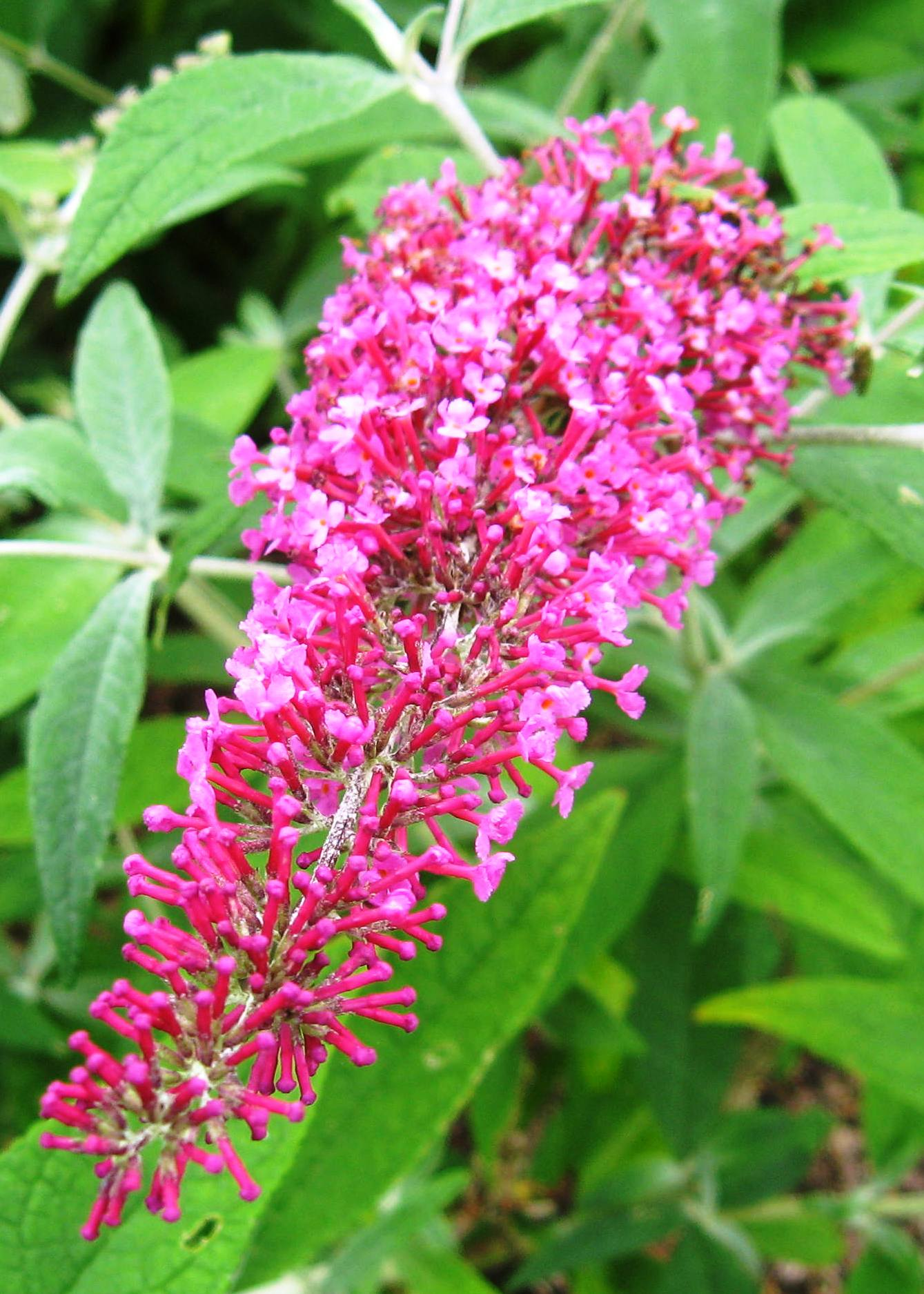 Photo of Buddleja cultivar taken at Longstock Park Nursery, UK, NCCPG national collection holder